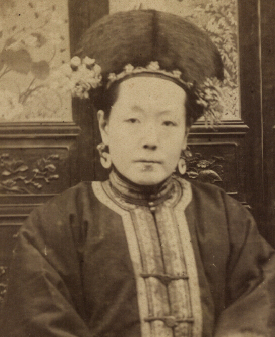 Lady Yehenara Wanzhen, wife of Yixuan, Prince Chun and the mother of Emperor Guangxu Emperor